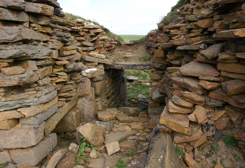 Broch of Borwick, Mainland, Orkney, Scotland. Entrance seen from the west.